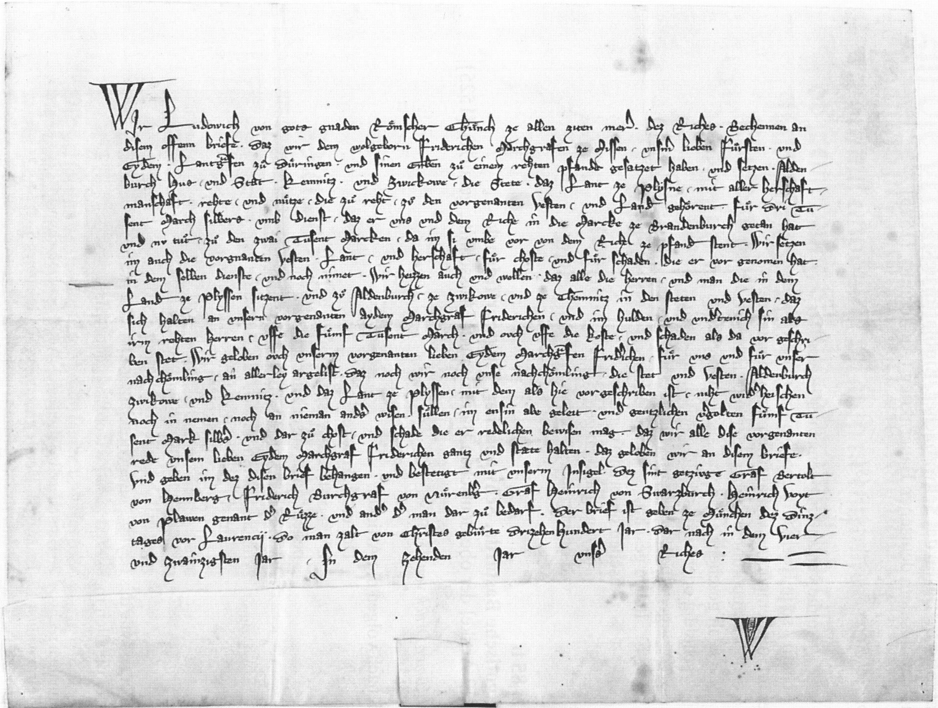 A charter of emperor Louis IV for Frederick II, Margrave of Meissen. Sächsisches Staatsarchiv, Hauptstaatsarchiv Dresden, 10001 Ältere Urkunden, Nr. 2322.